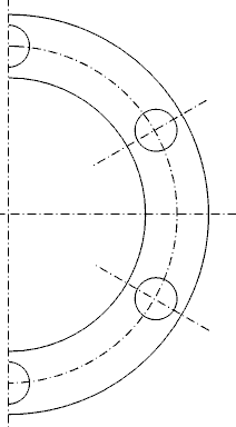 Technical drawing showing a holes